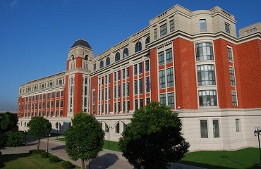 USST Admin Building